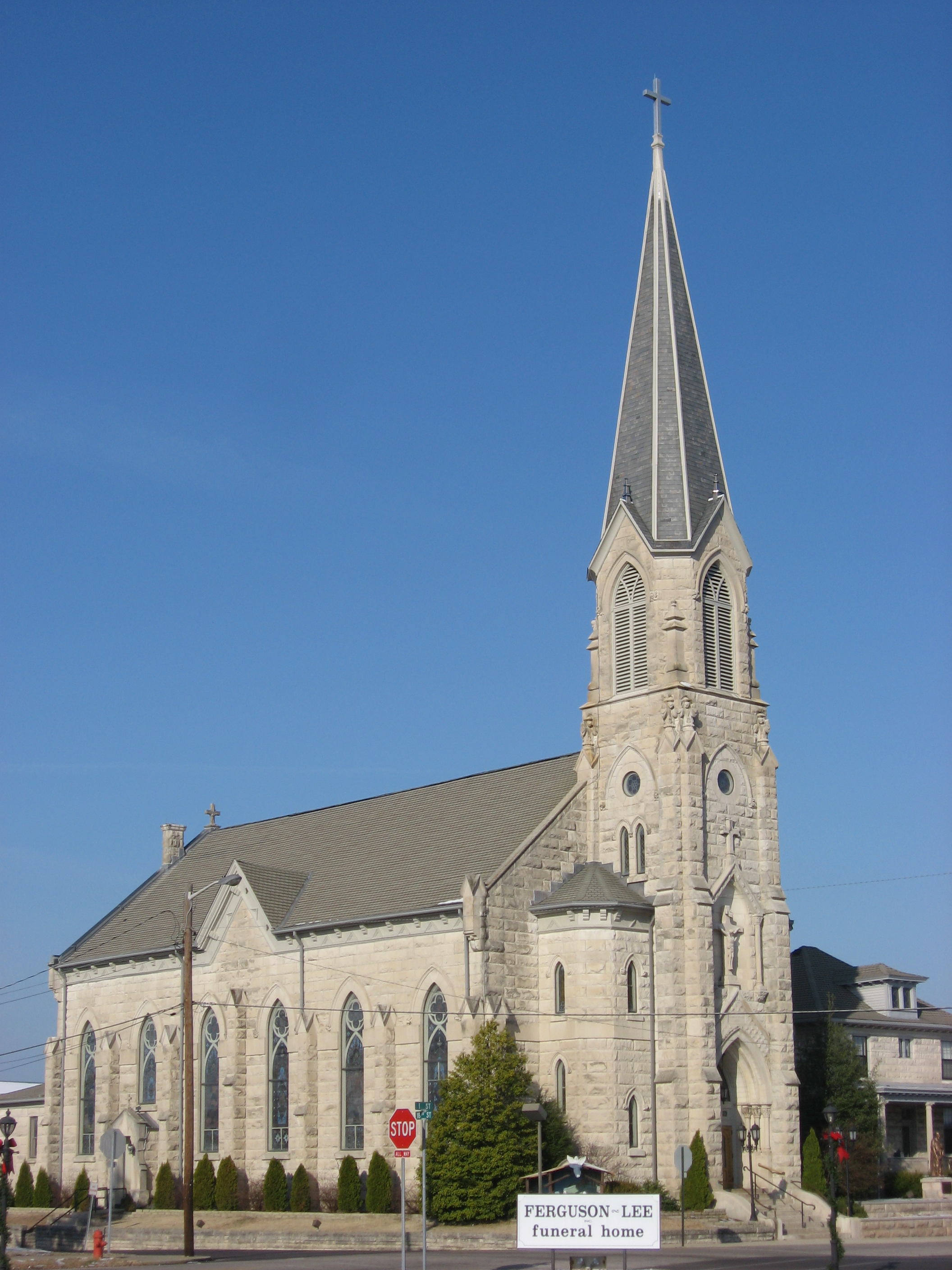 Front and southern side of St. Vincent de Paul Catholic Church, located at 1723 I Street in Bedford, Indiana, United States. Built in 1893, it is part of the Zahn Historic District, a historic district that is listed on the National Register of Historic Places. Church website.